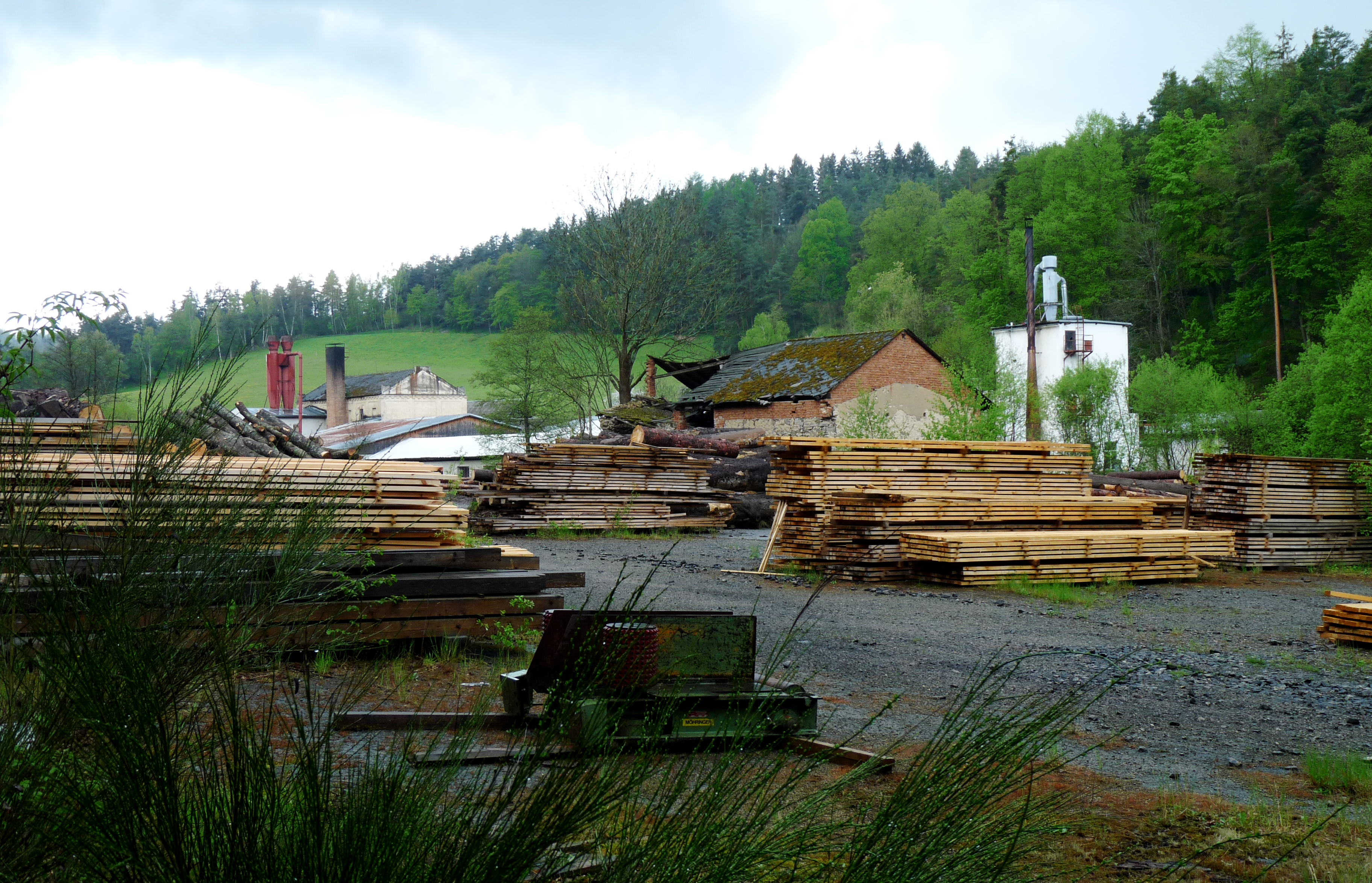 A former mill in the village of Dvory, Prachatice District, South Bohemian Region, Czech Republic.